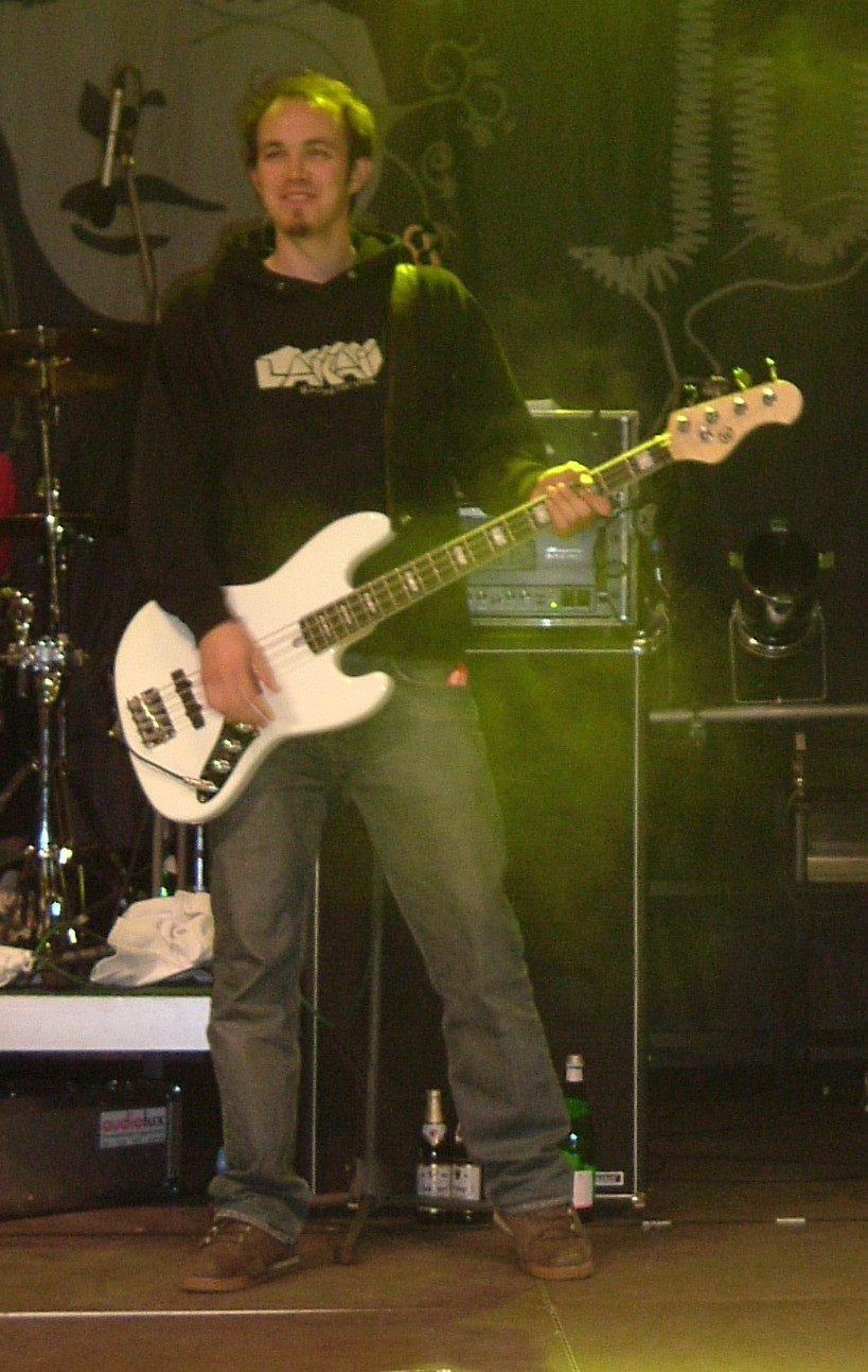 Andreas "Dedi" Herde, bassist of Juli; photo by Steffen Löwe; Cottbus, Germany, 2006-05-26